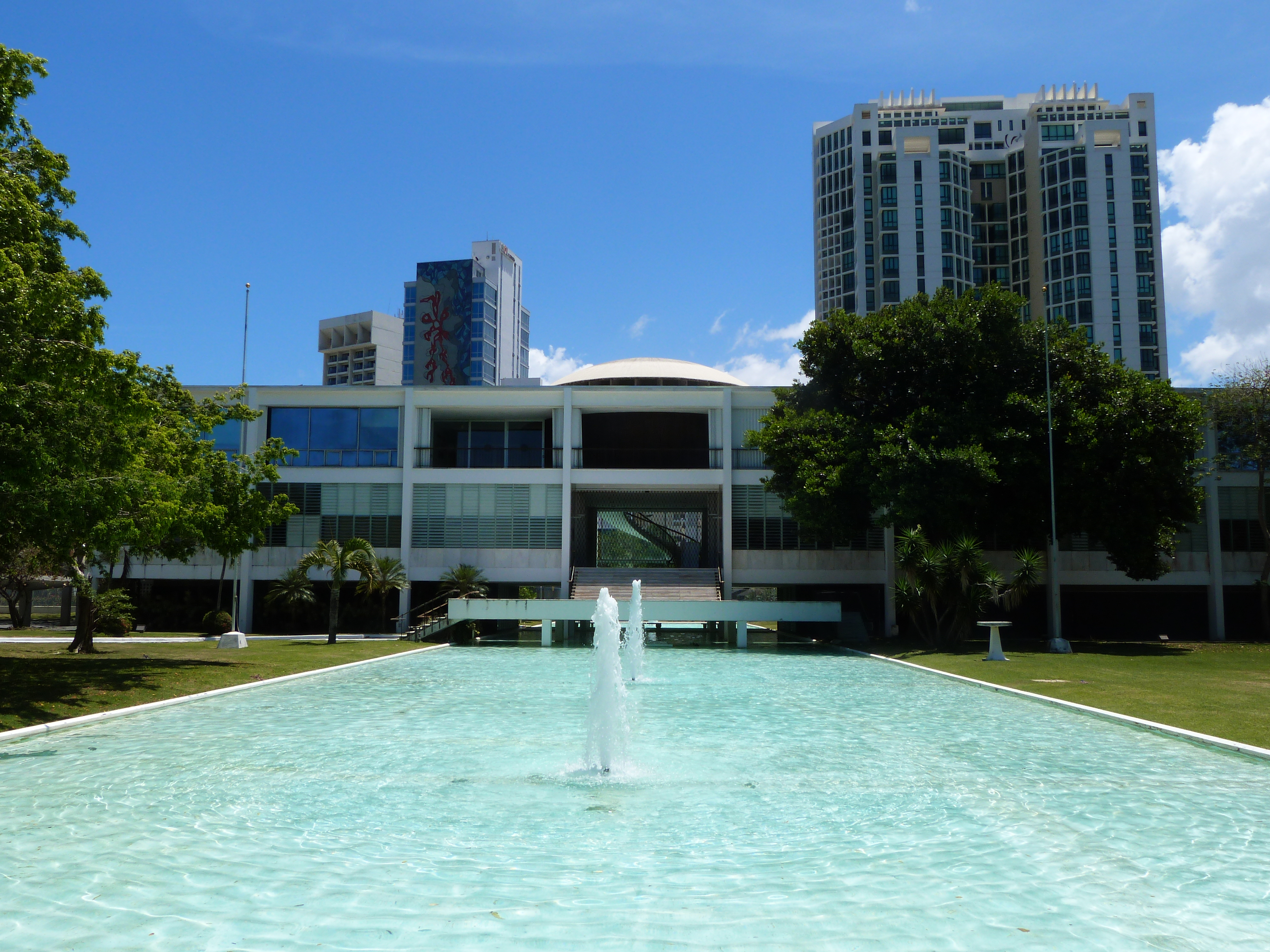 The historic Supreme Court Building (built 1952–1956), located in Luis Muñoz Rivera Park, San Juan, Puerto Rico, is listed on the U.S. National Register of Historic Places.